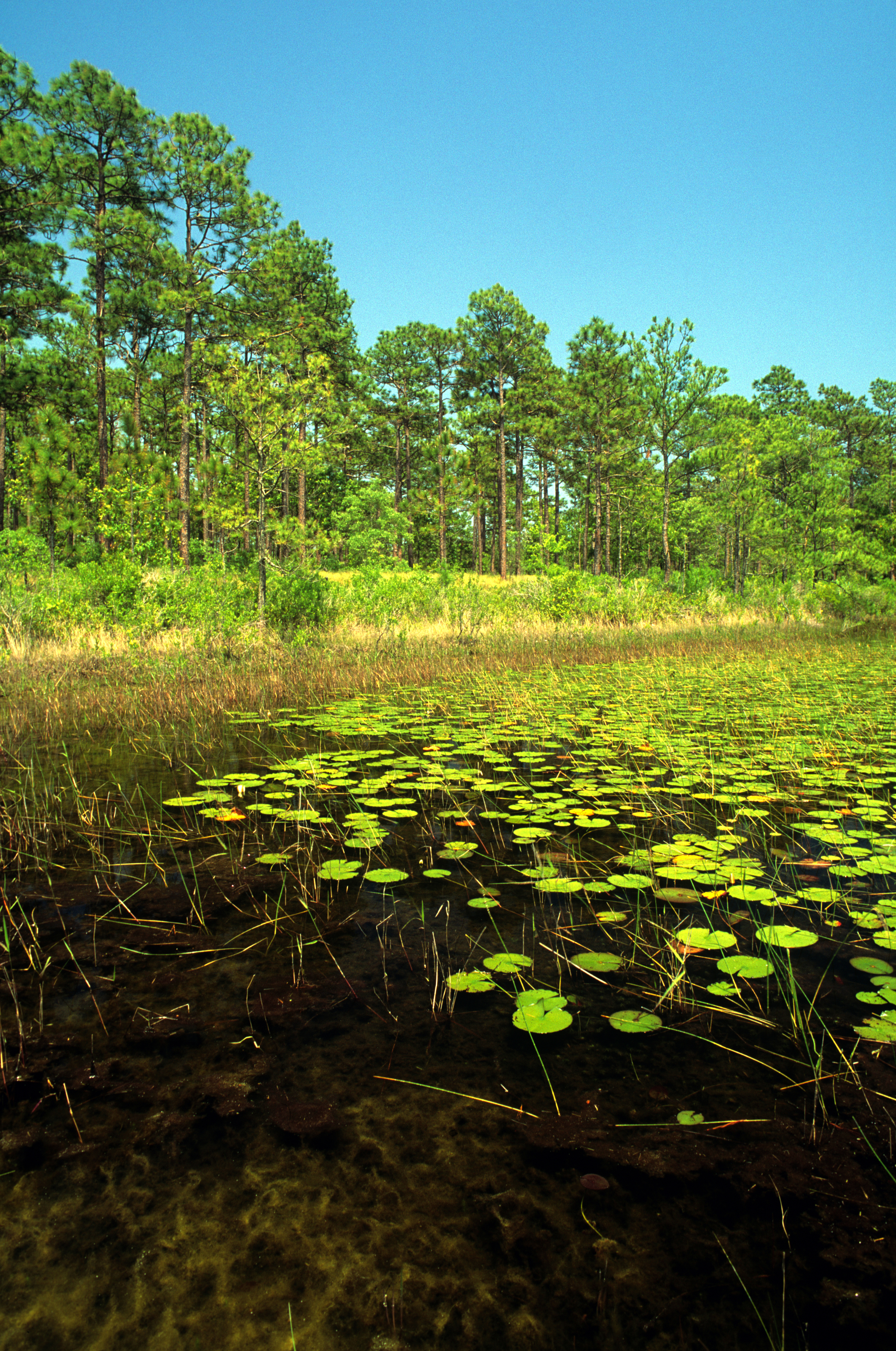 Patsy Pond Complex, Croatan National Forest, North Carolina, USA